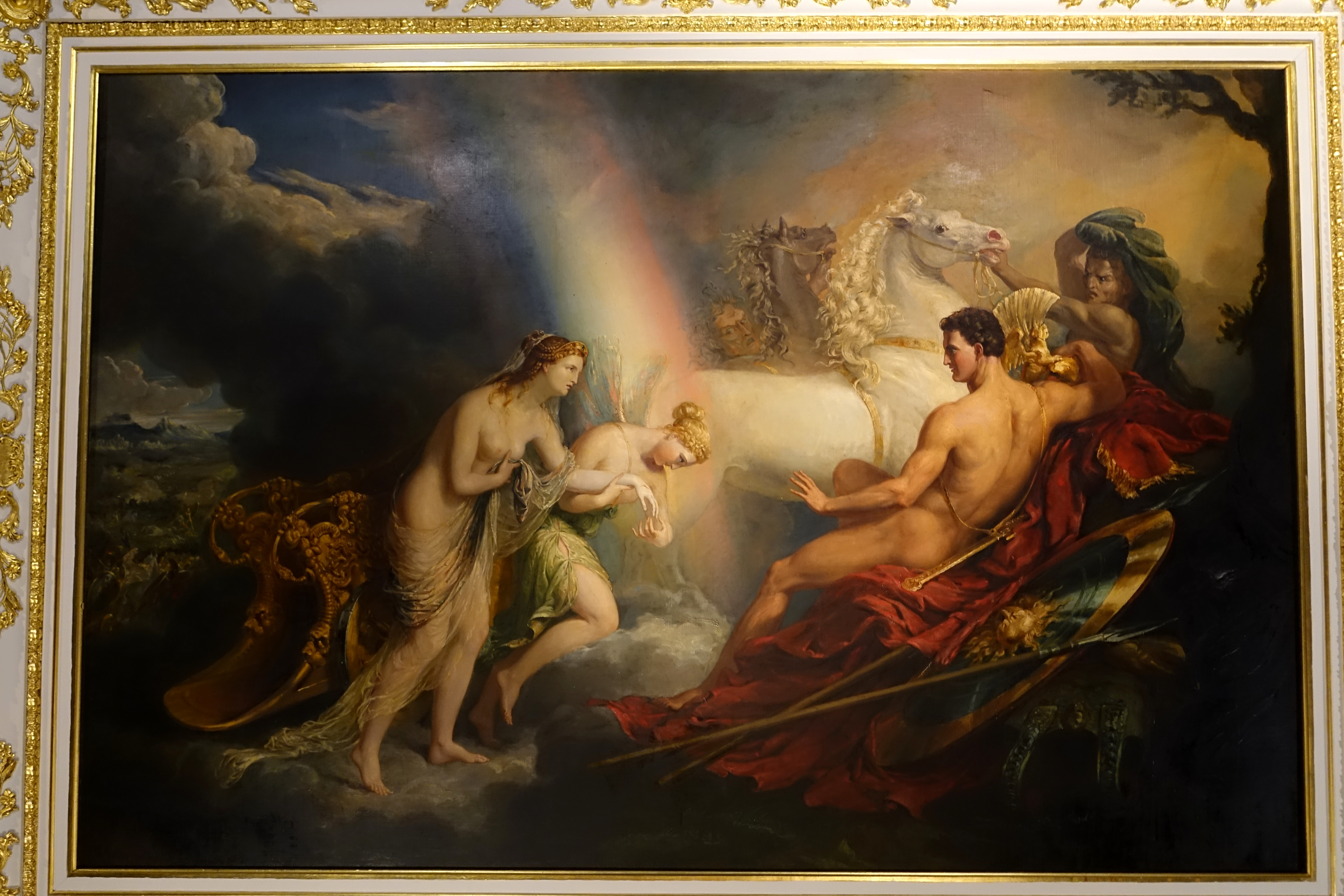 Iris presenting the wounded Venus to Mars (Venus, supported by Iris, complaining to Mars), by Sir George Hayter, 1820 - Ante Library, Chatsworth House - Derbyshire, England.